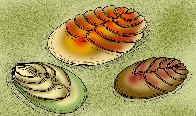 Reconstruction of the White Sea Ediacaran proarticulatans (from left to right) Paravendia janae, Vendia sokolovi, and V. rachiata.